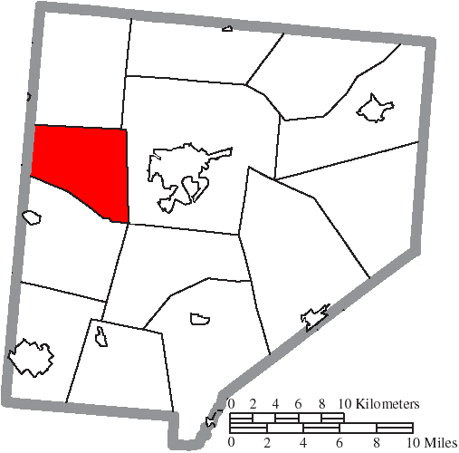 Map of the municipal and township boundaries of Clinton County, Ohio, United States, as of the 2000 census, with the location of Adams Township highlighted. Township borders are shown only in unincorporated areas in order to differentiate incorporated and unincorporated areas more clearly.